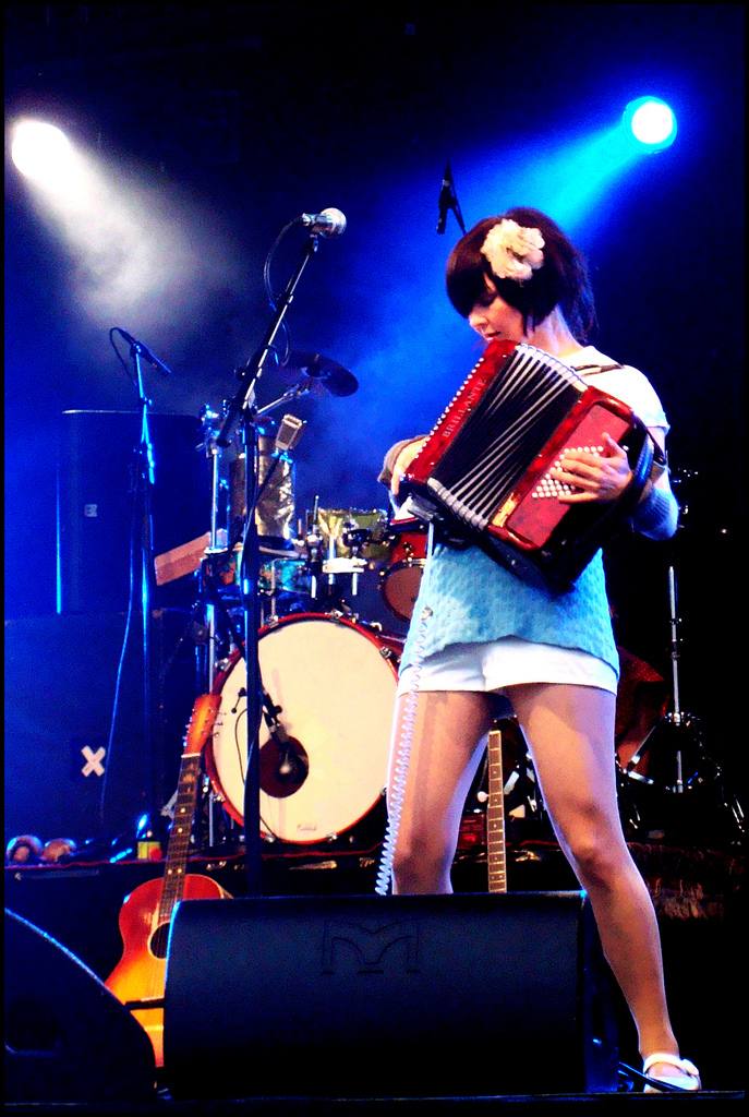 Picture taken during Katzenjammer concert at the Tahiti festival in Kristiansund, Norway